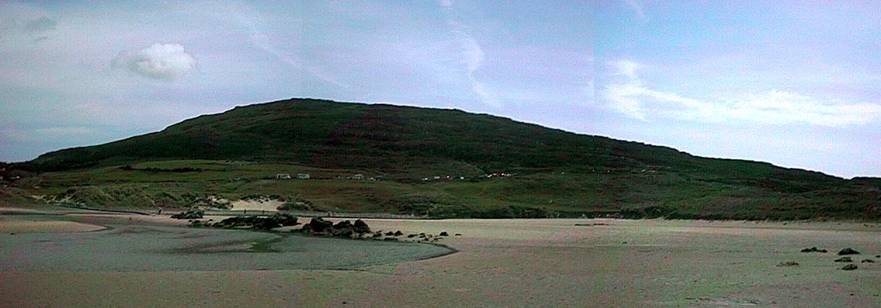 Personal photo of hillside by Barleycove, County Cork, Ireland..